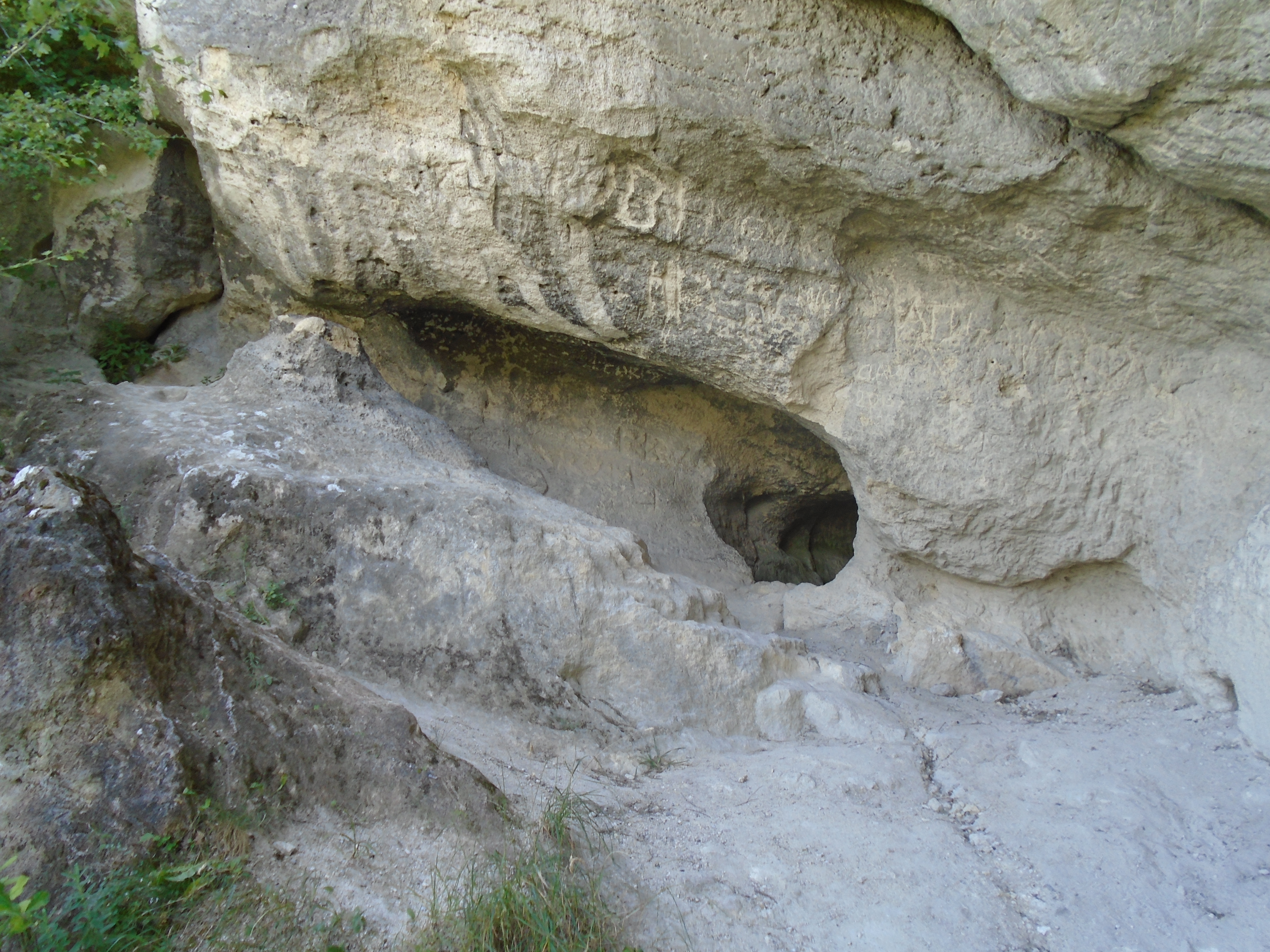 Entrance of Remény Passage of Zelezna Baba Cave.